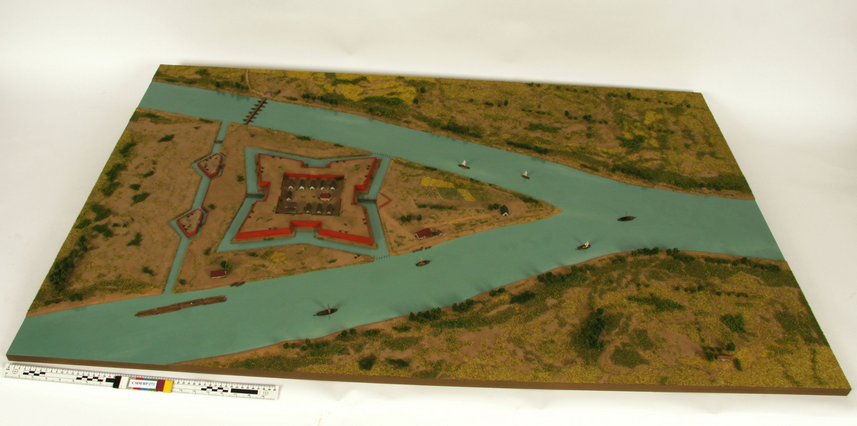 Model of stronghold Gdańska Głowa (Danzinger Haupt). Exhibit in National Maritime Museum in Gdańsk, Poland